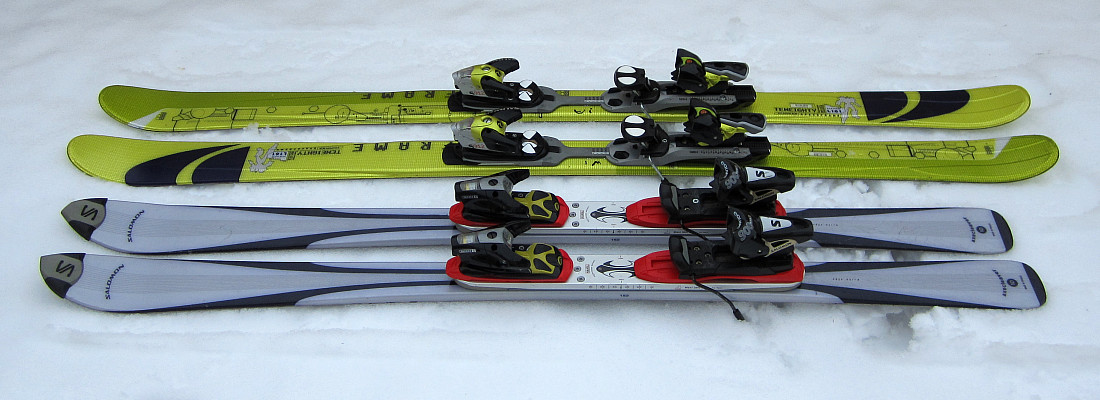 Landmark Salomon skis, introduced 1998 Top: Salomon Teneighty (picture shows edition 2004), park and freestyle ski, length 171 cm, sidecut (mm) 114-80-108, radius 16 m Bottom: Salomon Axecleaver 10 with riser plate, hypercarver, length 152 cm, sidecut (mm) 108-68-98, radius 10 m